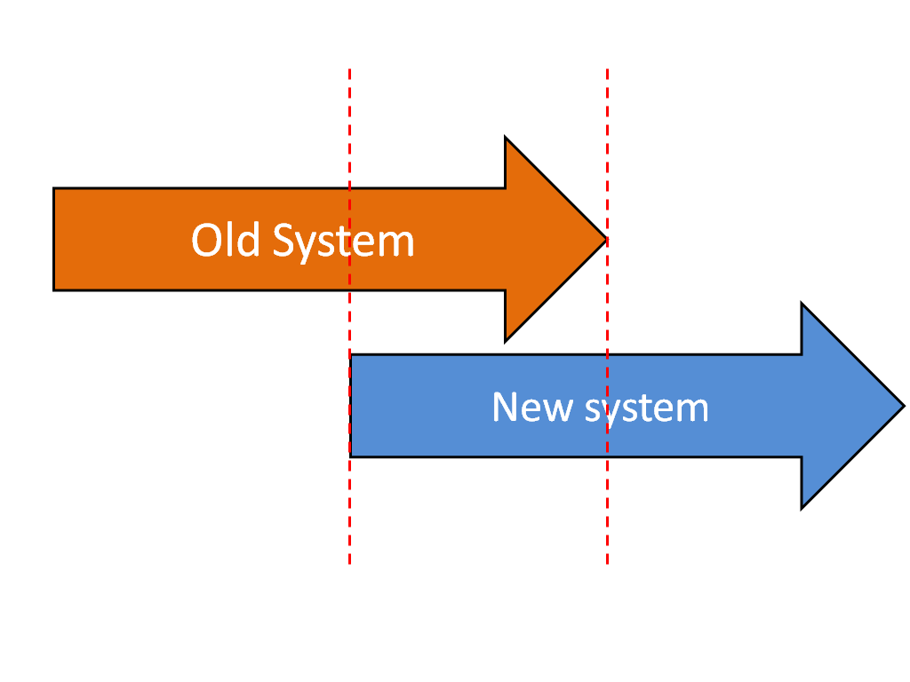 Parallel running, replacing the old system with the new one.